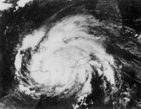 SMS-2 satellite image of Hurricane Allen in the Yucatán Channel, at 1731 UTC - near the time of peak intensity.